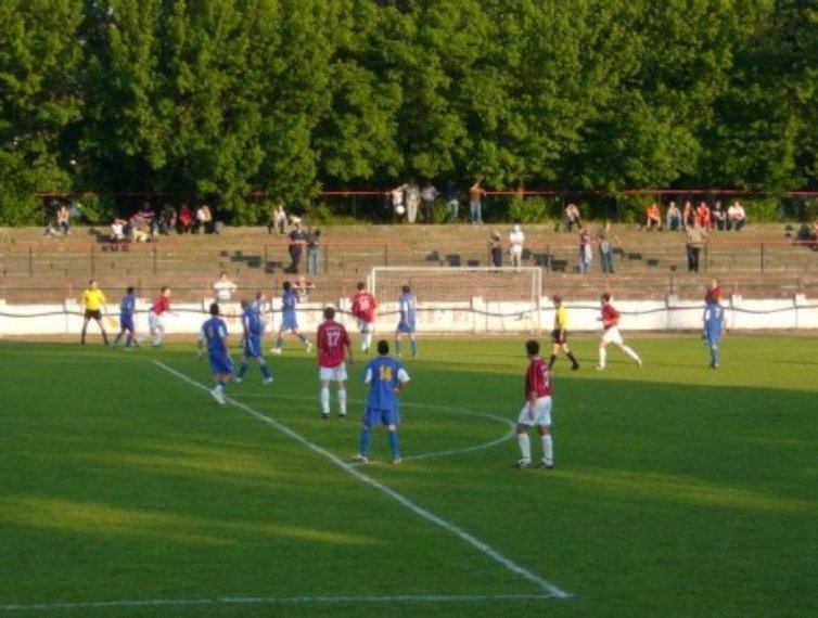 Stadium has nice green background